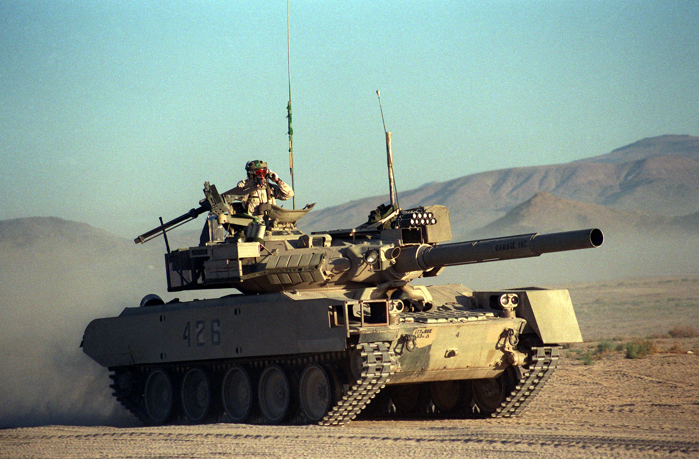 Sheridan tank visually modified to represent an opposing forces tank, T-80, during battle exercises for the 177th Armored Brigade at the National Training Center.Location: FORT IRWIN, CALIFORNIA (CA) UNITED STATES OF AMERICA (USA)